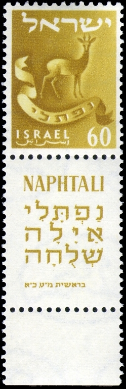 Tribes stamp - 60 mil - Naphtali. Second definitive series. Inscription on tab: "Naphtali is a hind let loose..." Genesis IL, 21.